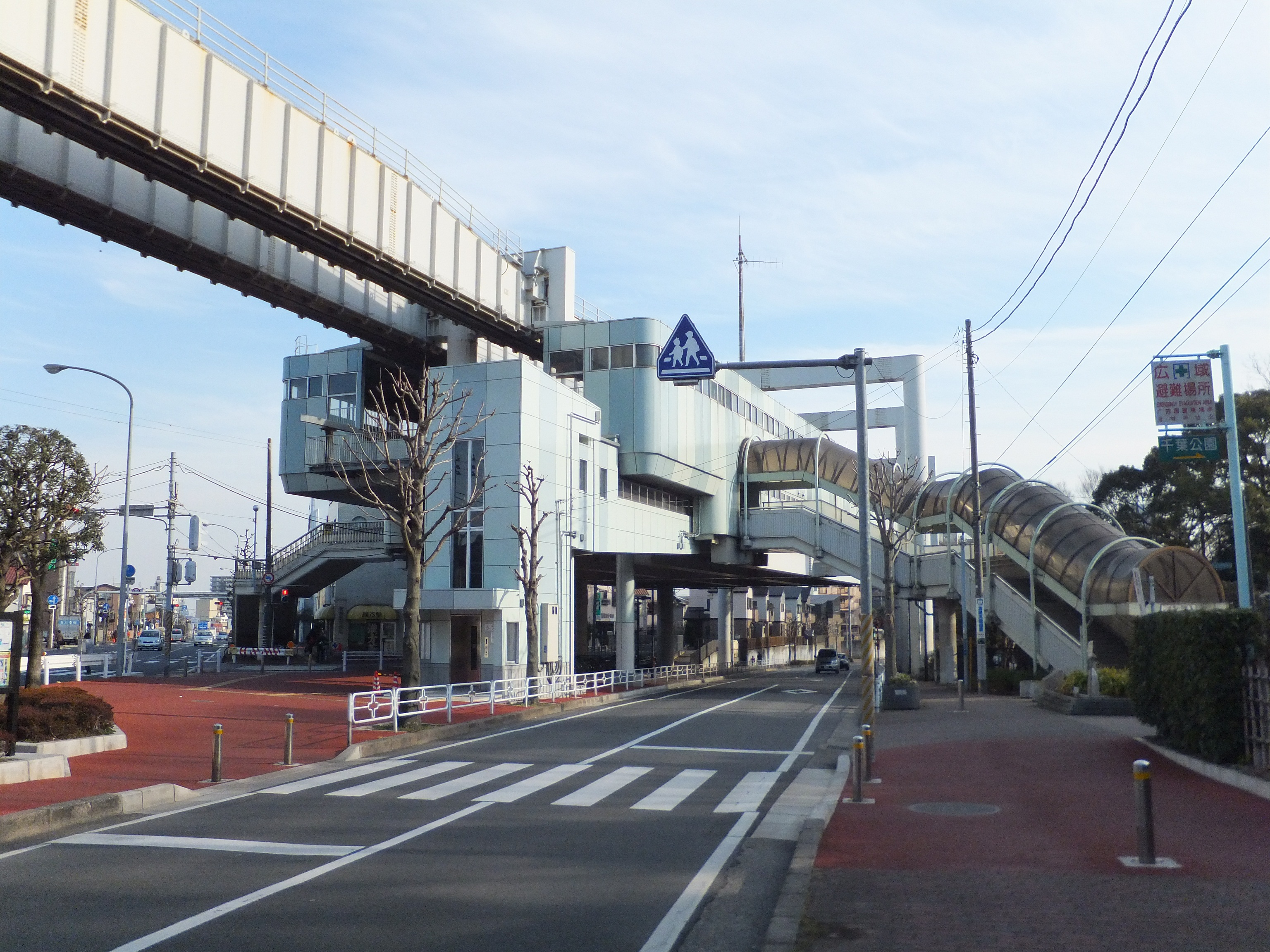 Chiba-kōen Station on Chiba Urban Monorail Line 2 in Chuō ward, Chiba city, Japan.